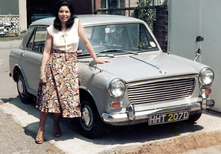 1966 Morris 1100 in Yate, Bristol, England. The lady is my wife, Barbara.